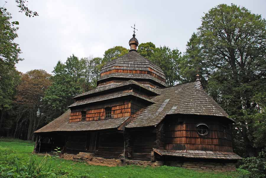 Ulucz (Poland), Greek Catholic church